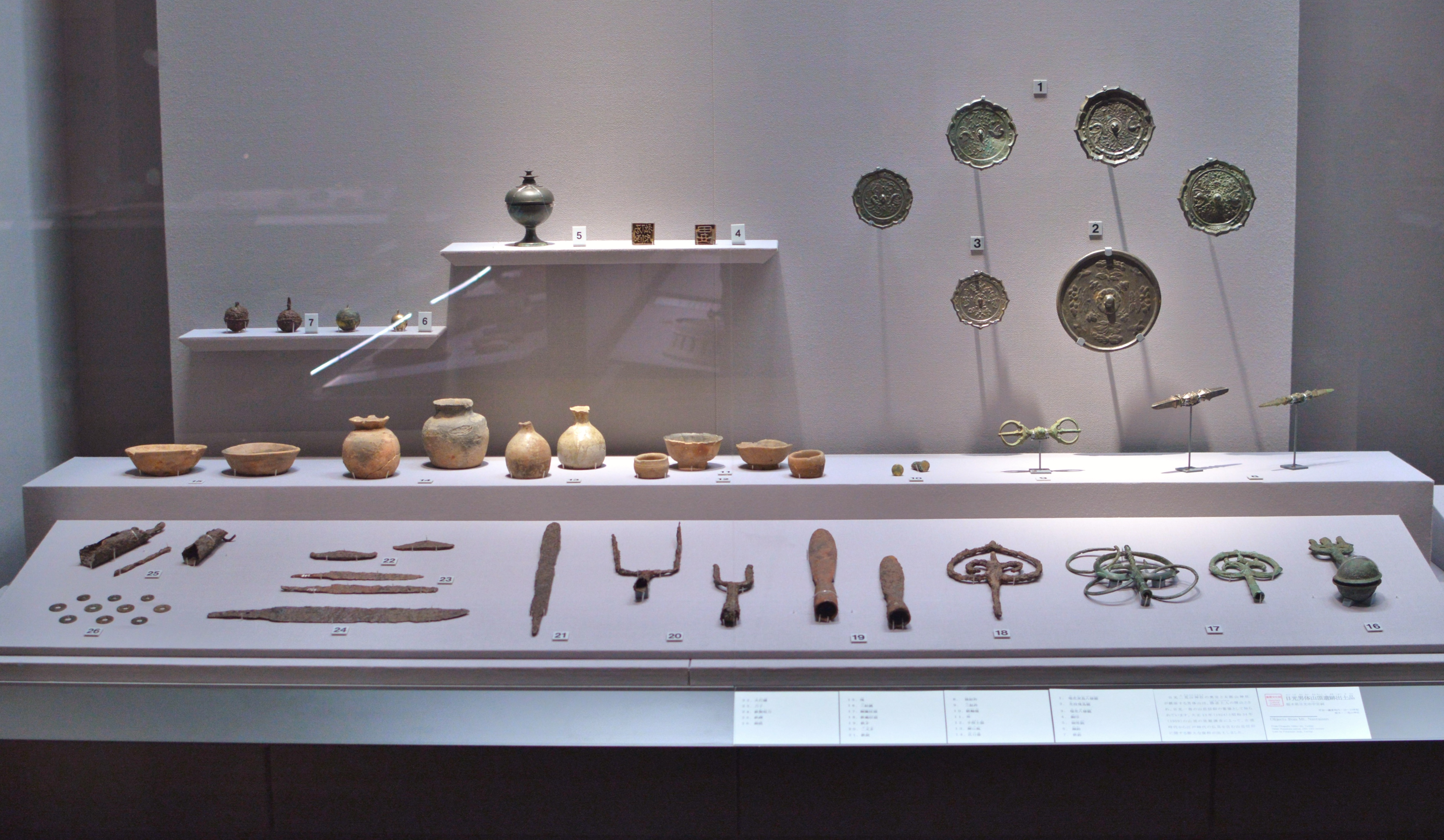 Japan: Futarasan Chūgūshi's artifacts unearthed from the summit of Nantai volcano in Nikkō (Tochigi prefecture).